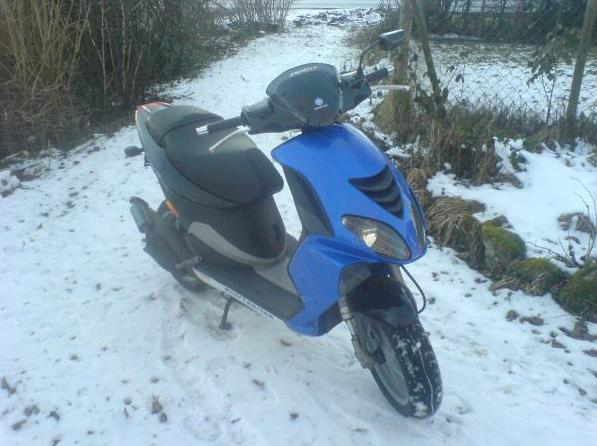 Piaggio NRG Power DD